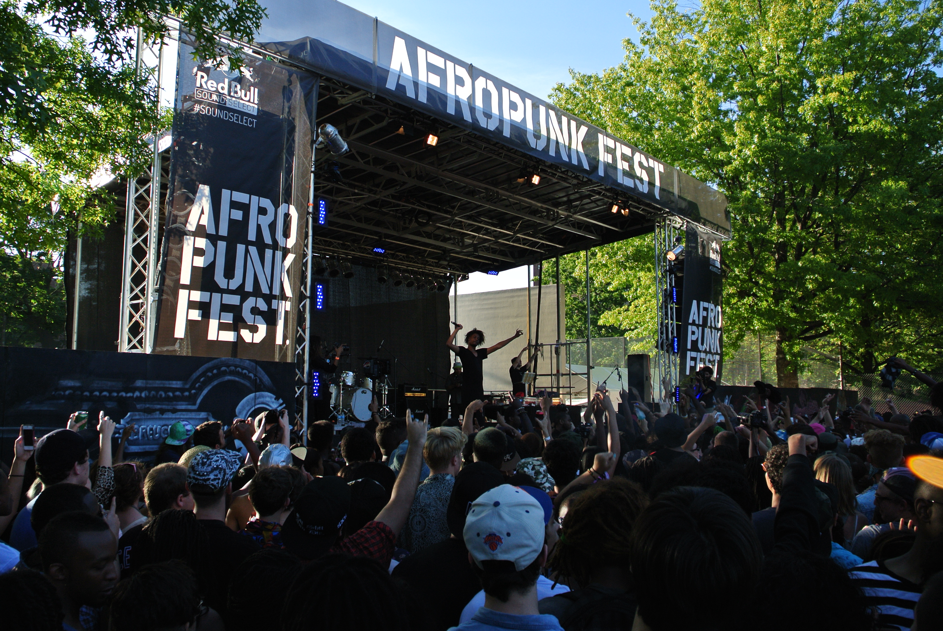 Danny Brown onstage at Afropunk Fest.